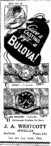 Canadian Bulova watch ad from a jeweler in Southern Ontario.